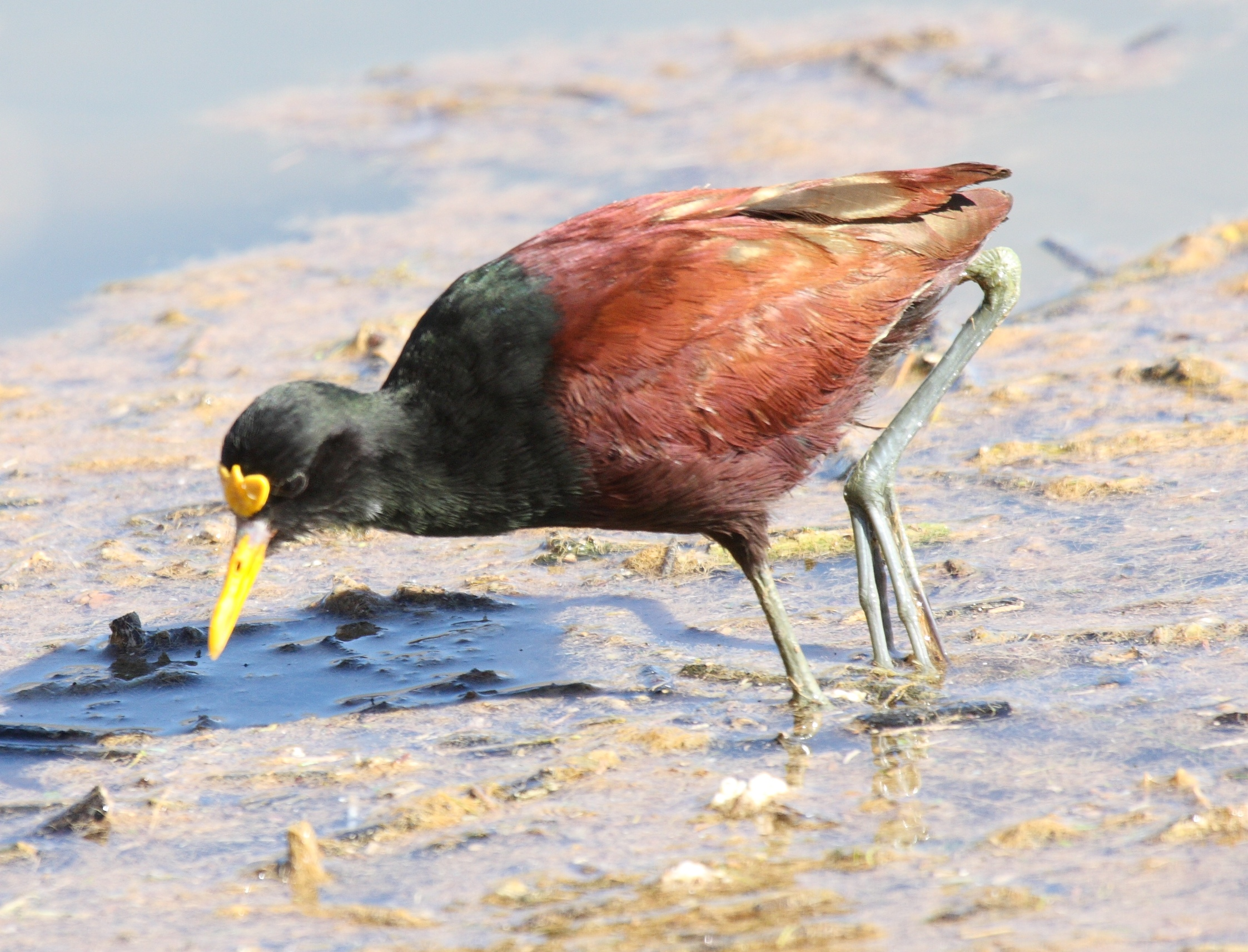 Northern Jacana (Jacana spinosa). Left foot is completely submerged while right foot only has toes in the water.